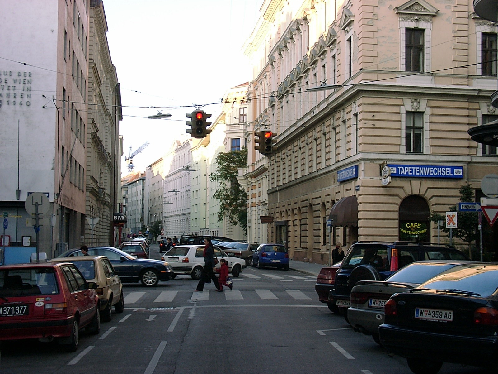 Traffic lights above a crossroad in Vienna, Austria